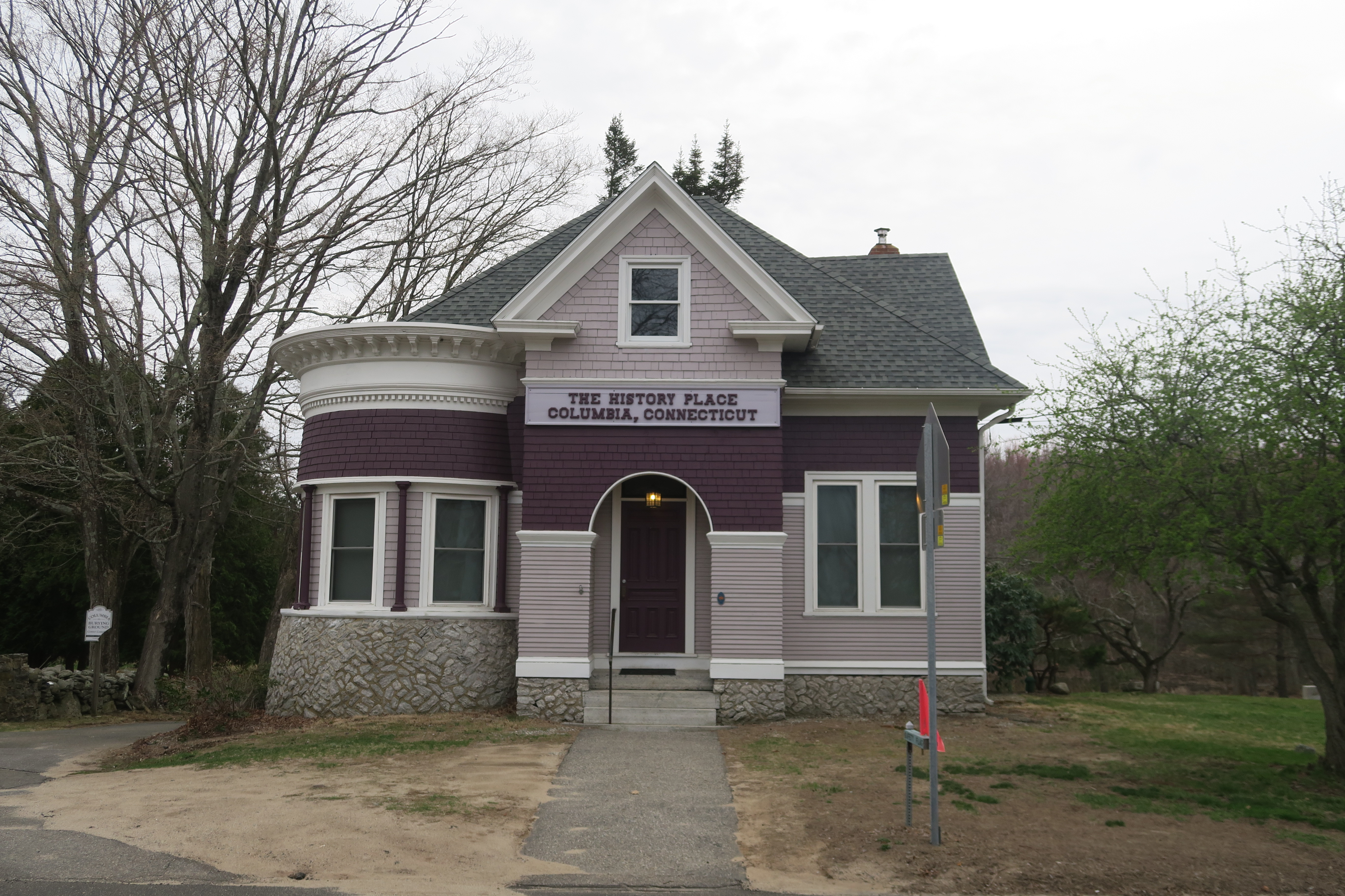 The History Place, Columbia Connecticut